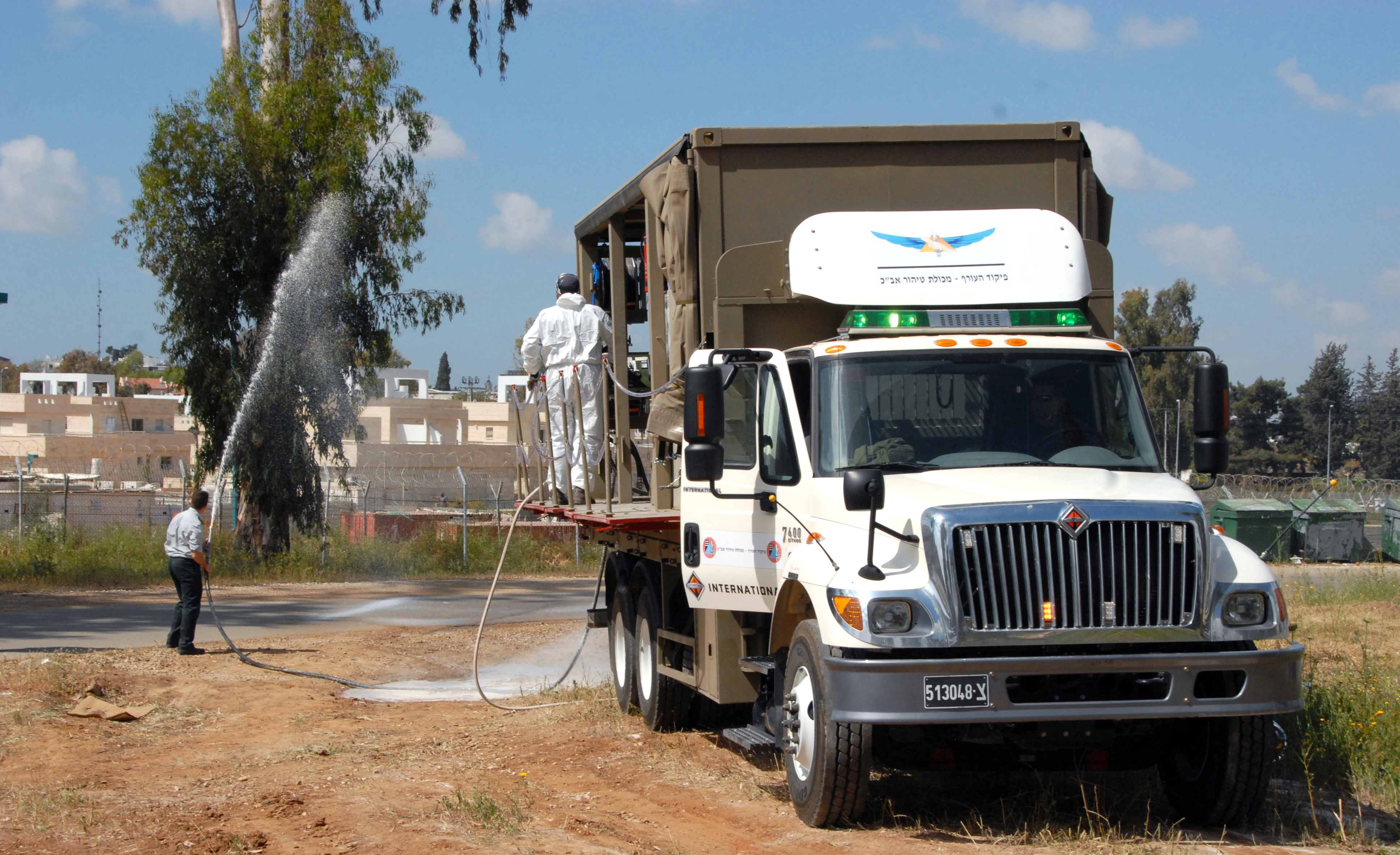 The Israeli Defense Force's Homefront Command demonstrates an area decontamination vehicle for National Guard Bureau officials observing Turning Point 2, a first-ever national-level civil-defense exercise, at the defense ministry headquarters in Kirya, Israel, on April 8.